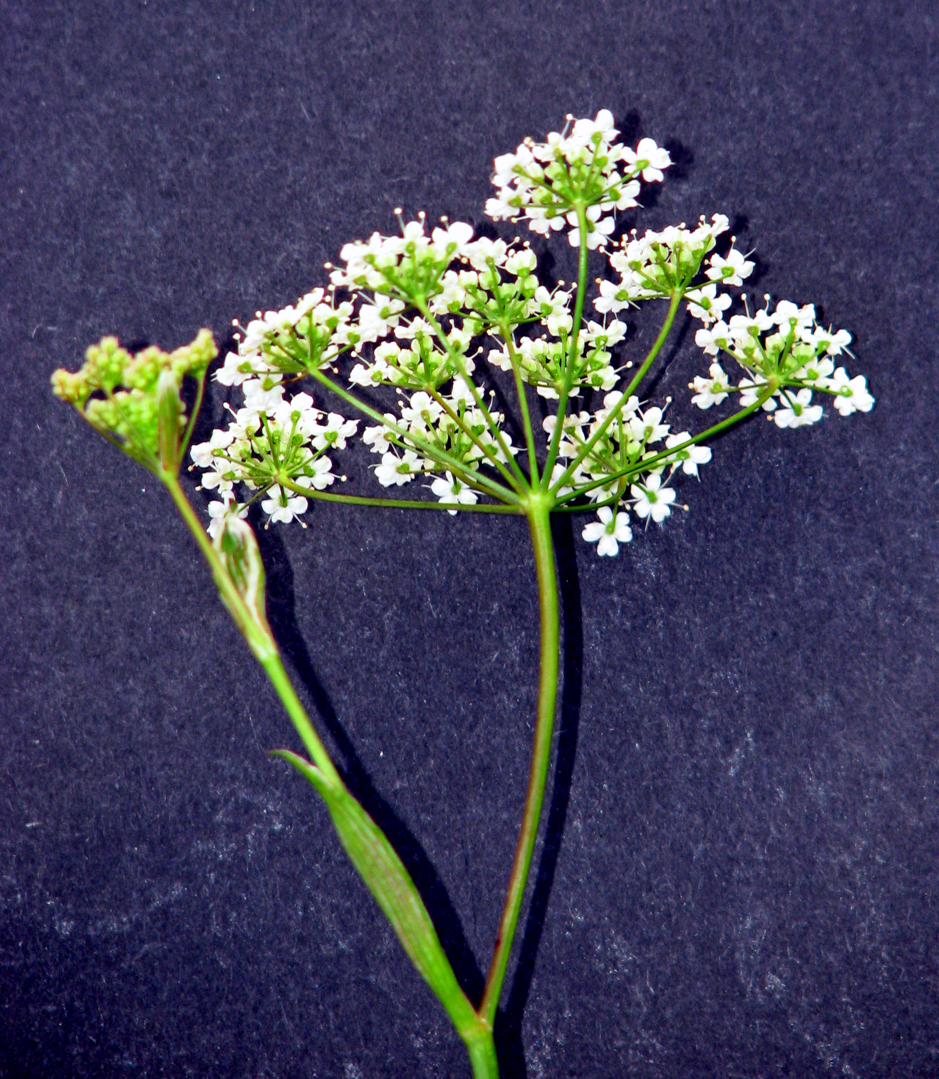 Pimpinella saxifraga subsp. saxifraga